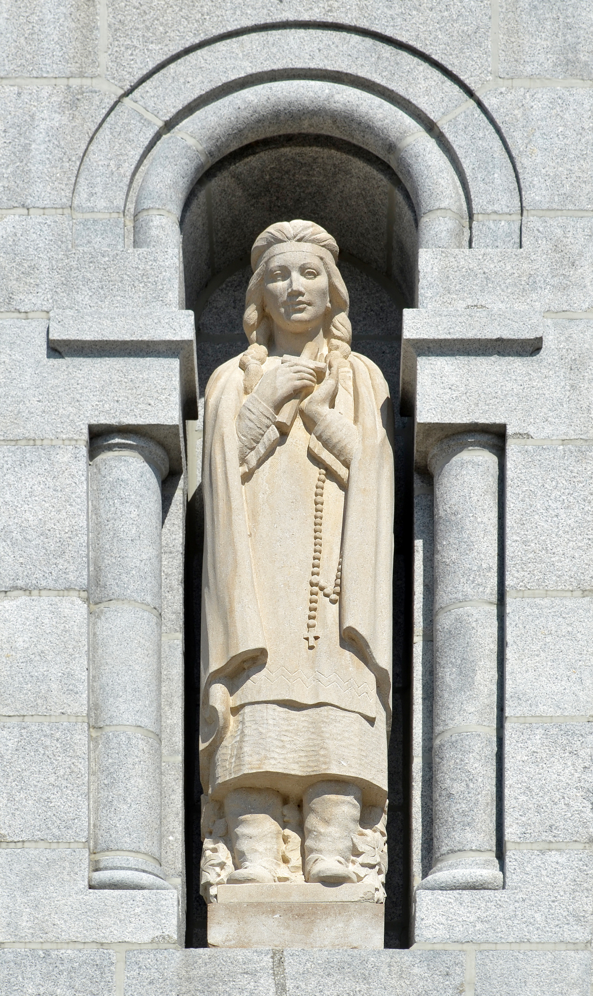 Statue of Kateri Tekakwitha (by Joseph-Émile Brunet) on the outside of the Basilica of Sainte-Anne-de-Beaupré, near Quebec City.